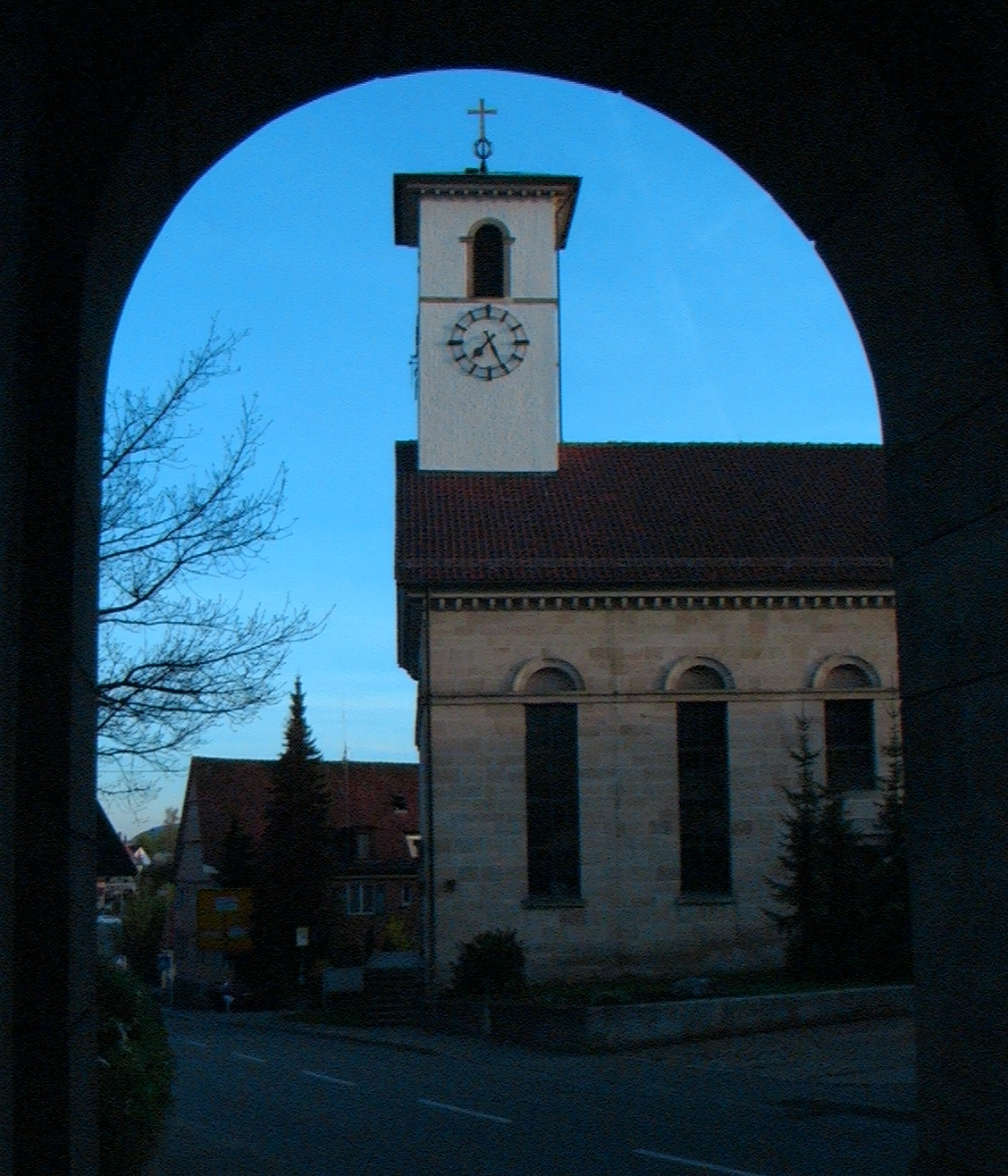 Blick von den Rathausarkaden in Rommelsbach bei Reutlingen auf die neuromanische evangelische Martin-Luther-Kirche, die von 1827 - 1830 von Friedrich Bernhard Adam Groß erbaut wurde.